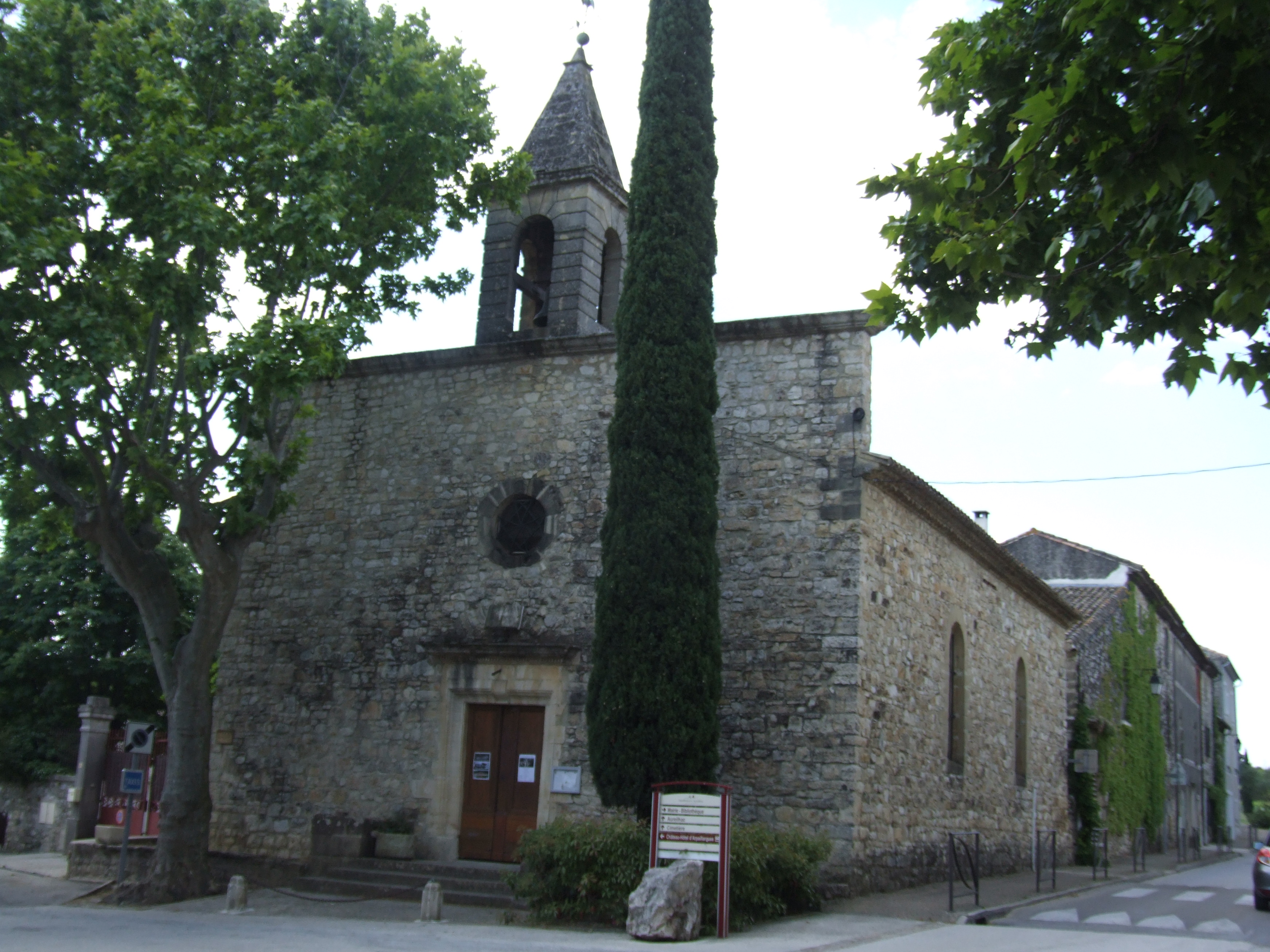 Protestant church of Arpaillargues-et-Aureillac, Gard, France